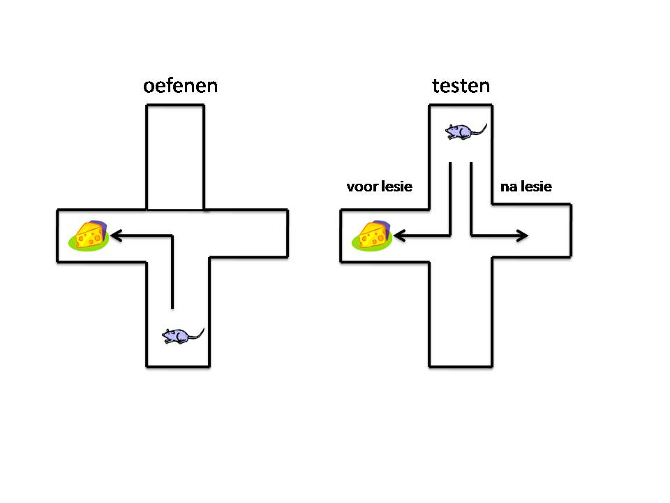 spatial representation (maze)